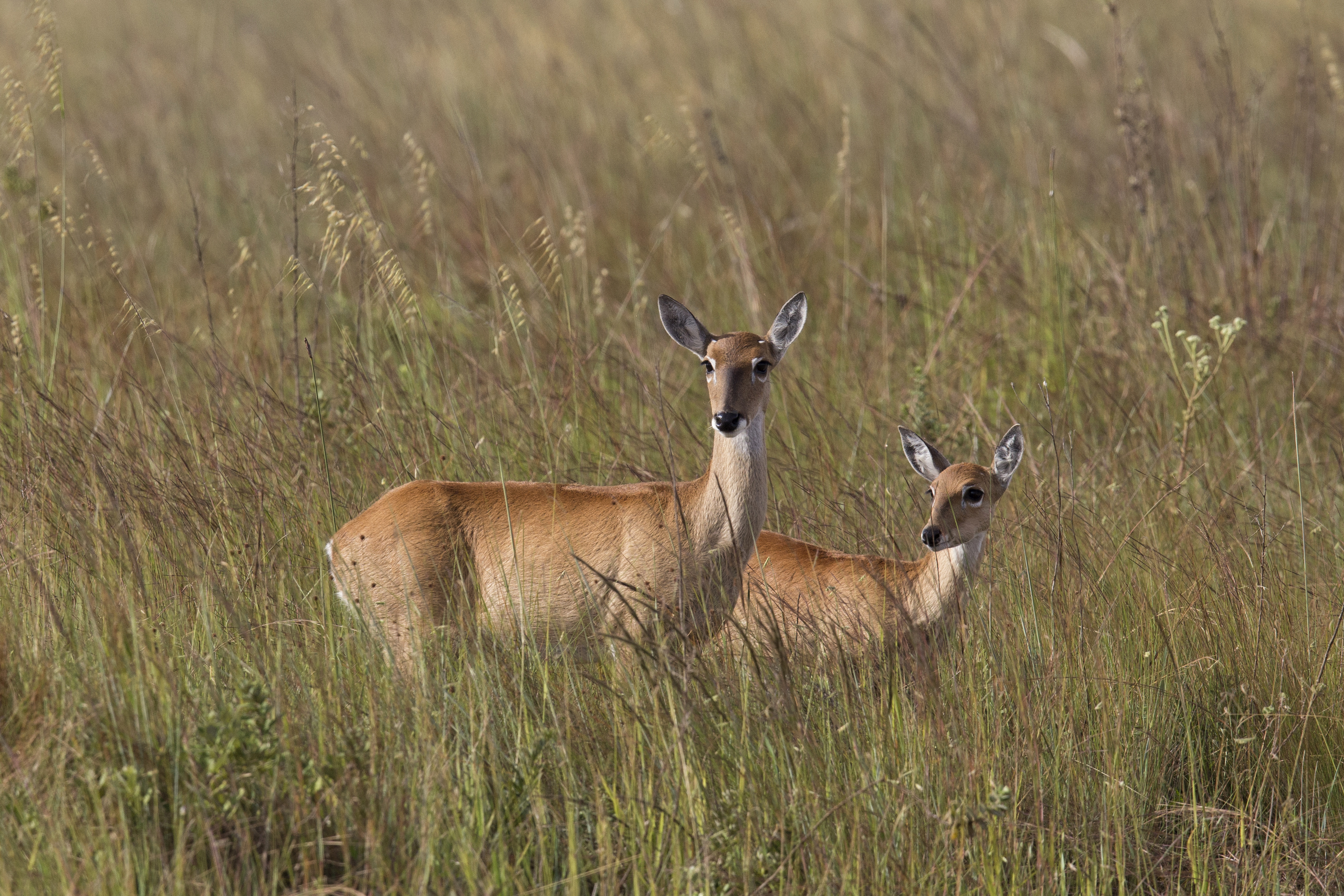 Pampas deer doe in Serra da Canastra National Park, Brazil.